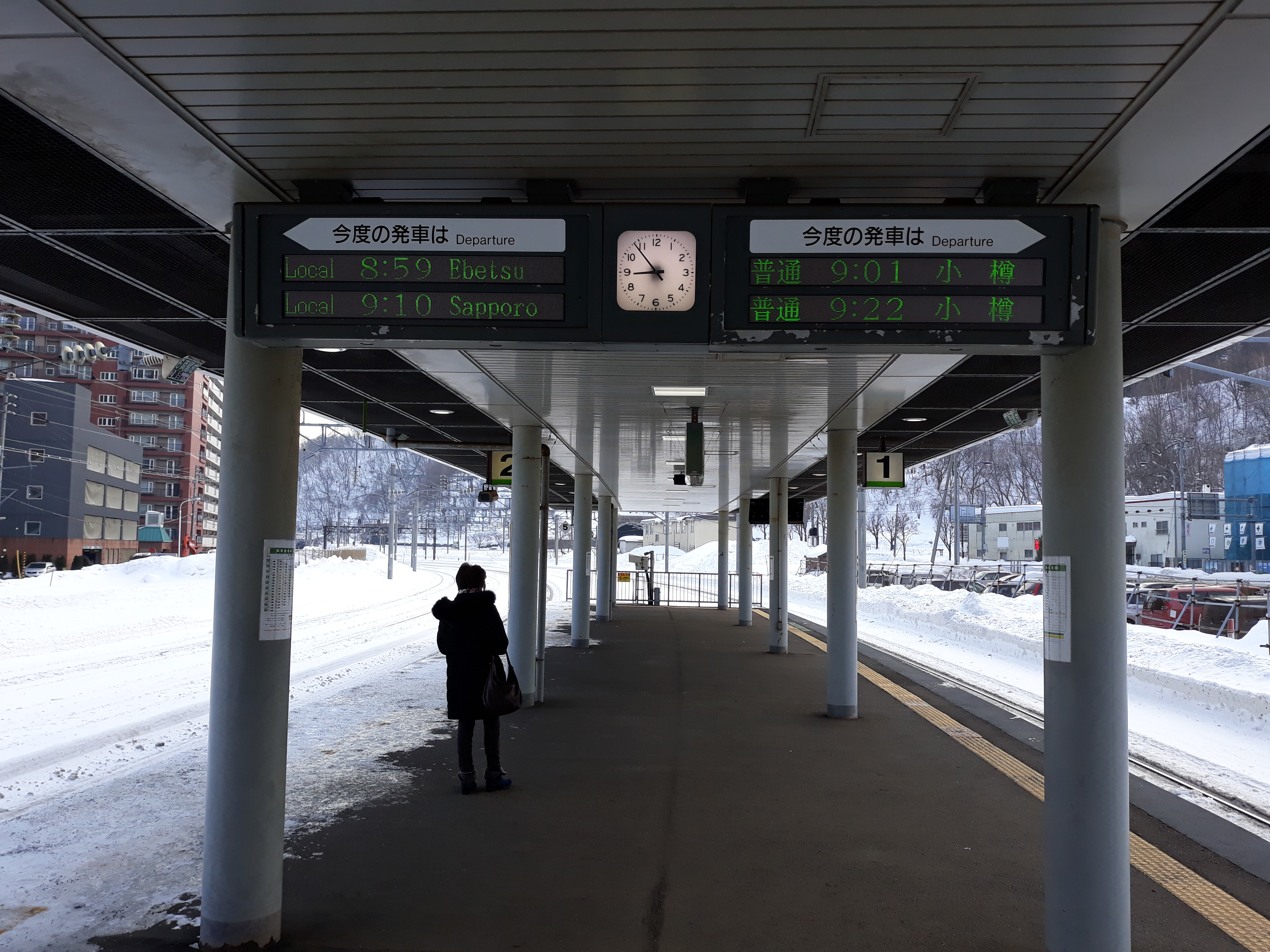 Boarding Platform of Otaruchikko Station.